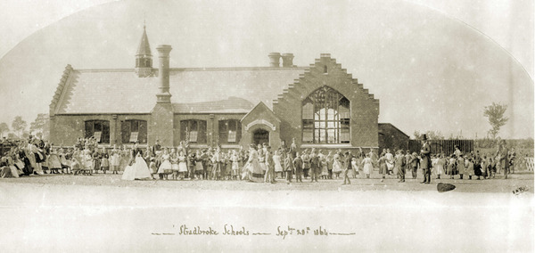 Taken on the opening of Stradbroke Primary School on 28th October 1864